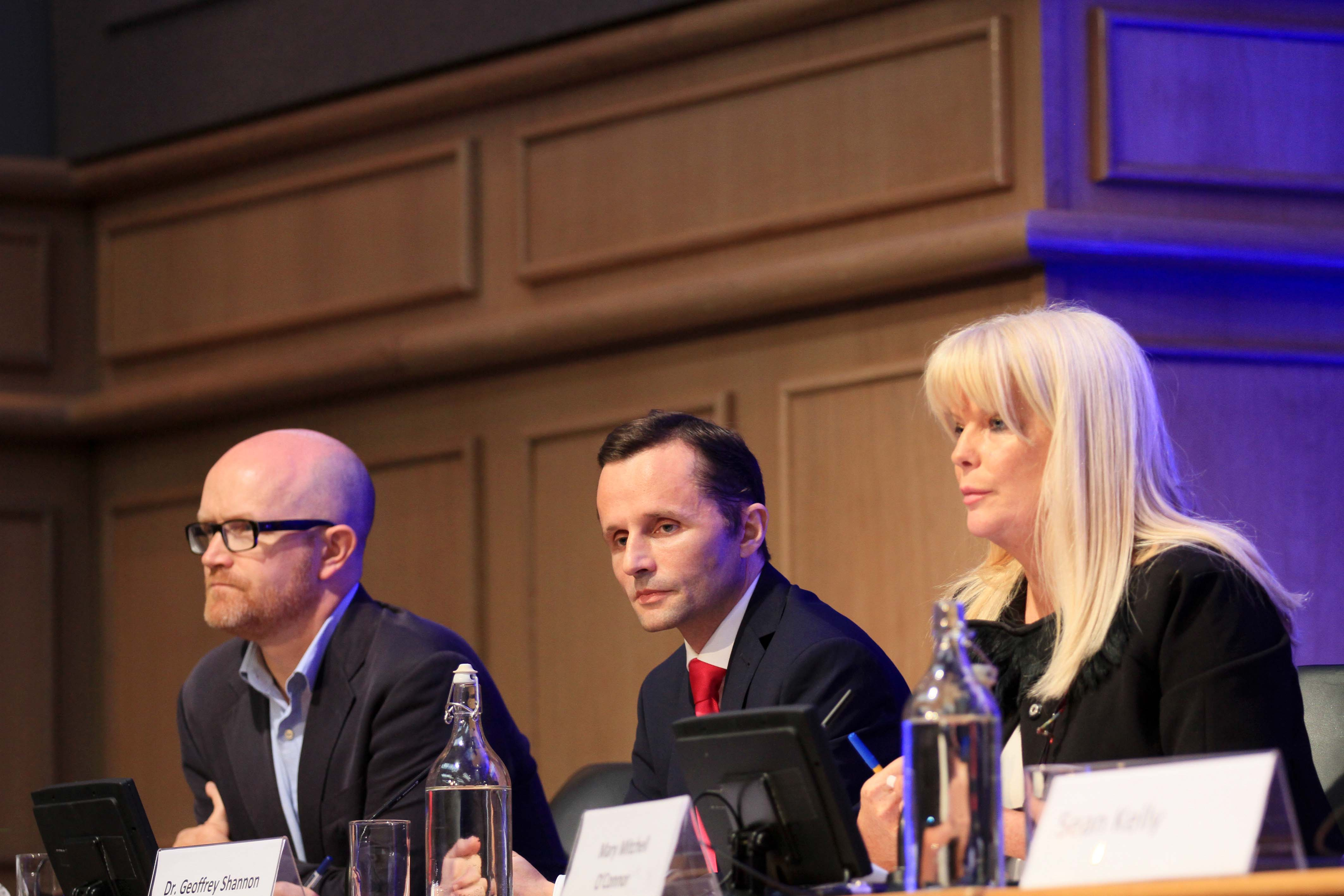 01/09/2014 - NEWS - . Picture Nick Bradshaw